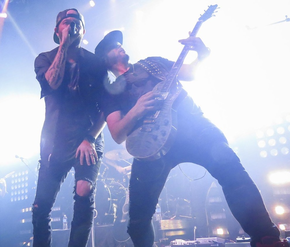 LOCASH performs during their tour stop at Summit Music Hall in Denver, CO in March 25, 2017.